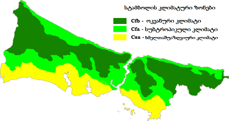 Istanbul climate zones according to Köppen classification system.